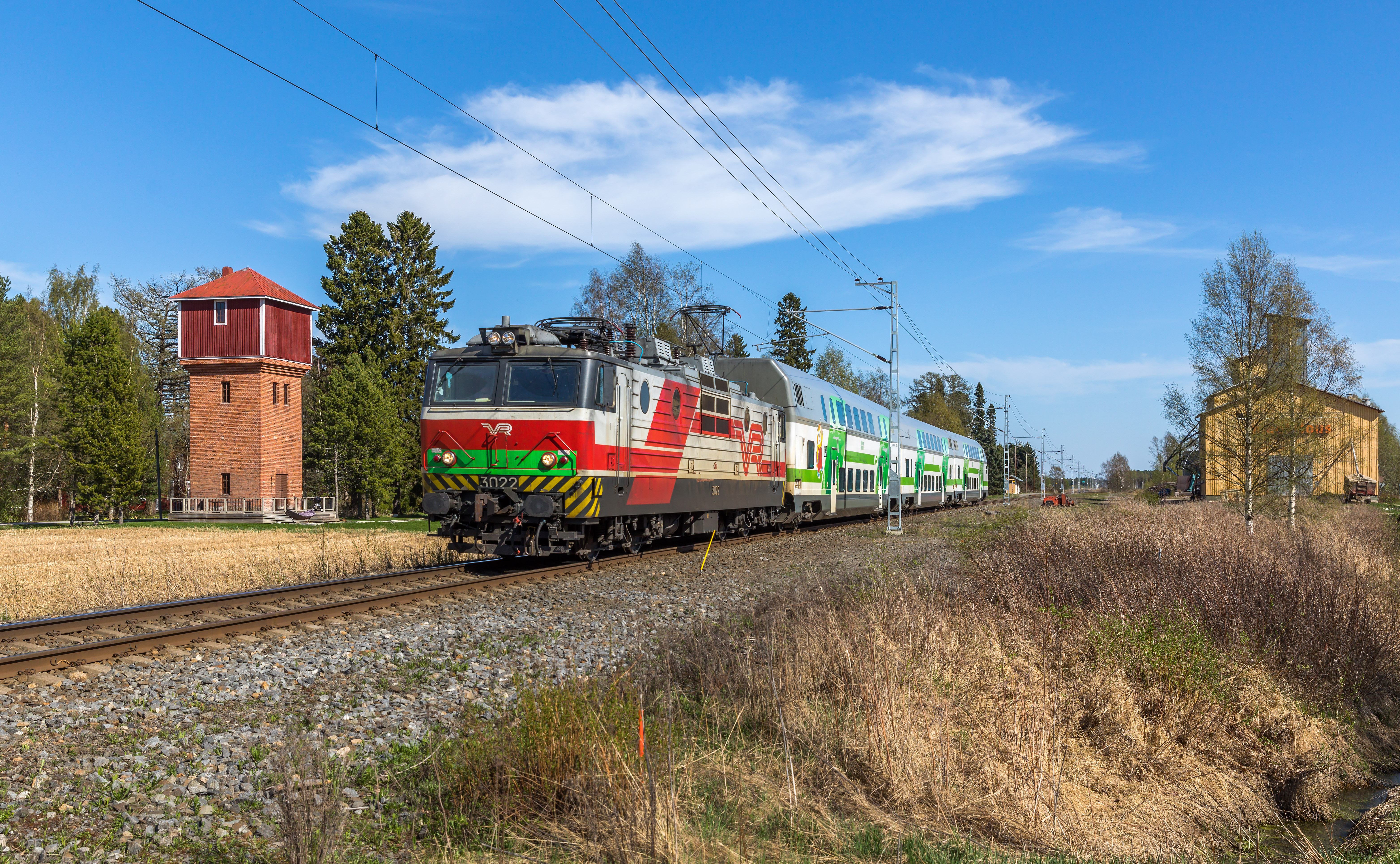 Sr1 3022 of VR-Yhtymä Oy is just leaving Tervajoki with an Intercity from Seinäjoki to Vaasa, Finland.